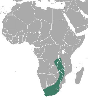 Lesser Dwarf Shrew (Suncus varilla) range